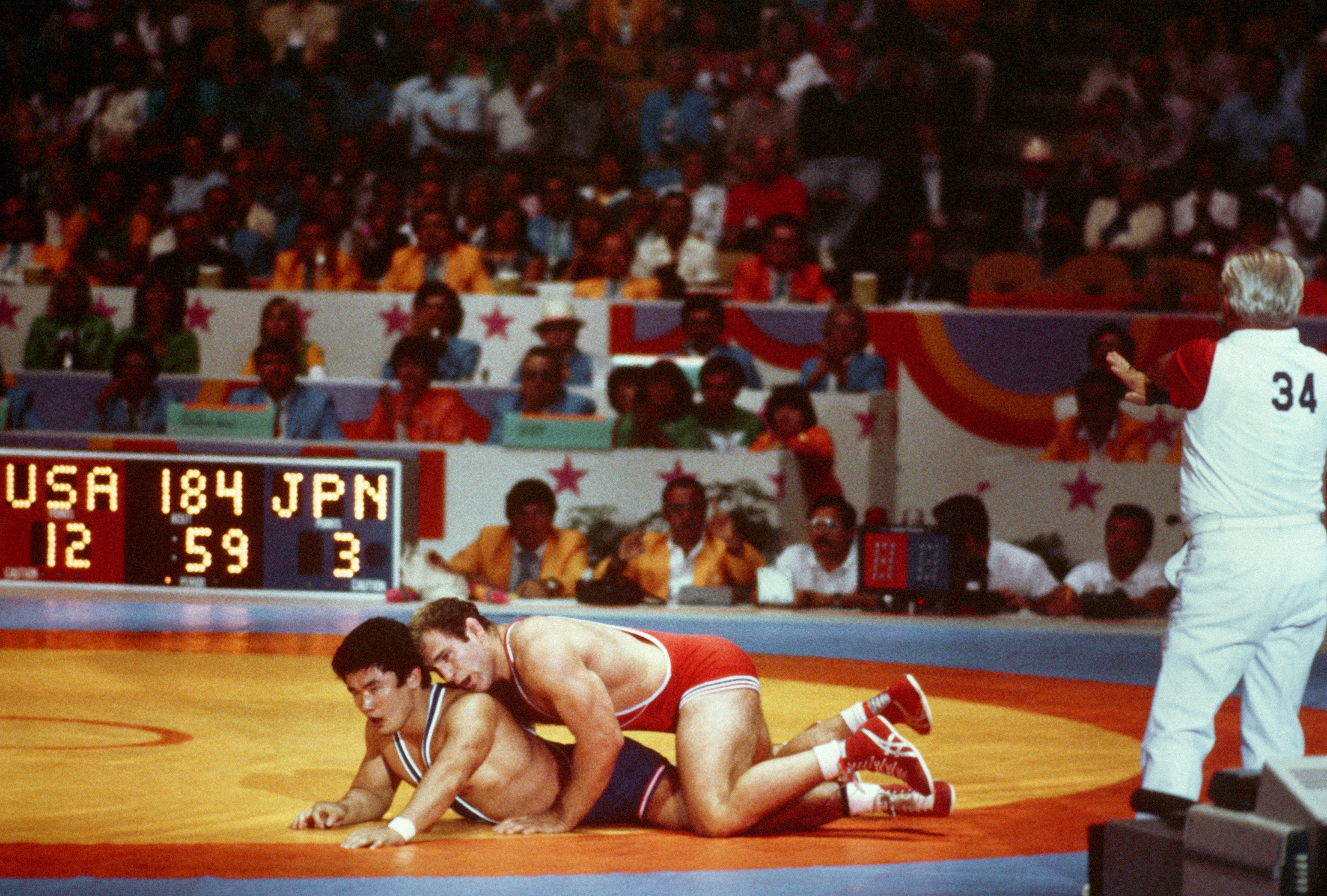 Ed Banach, in red, wrestles Akira Ohta of Japan during the 1984 Summer Olympics. Banach is the twin brother of Army 2nd Lieutenant Ludwig D. Banach, also a member of the freestyle wrestling team. (Released to Public)